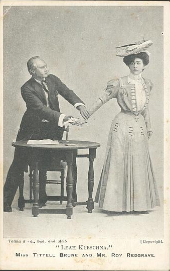 This image shows a photograph of Roy Redgrave and Miss Tittell Brune, taken c. 1920.